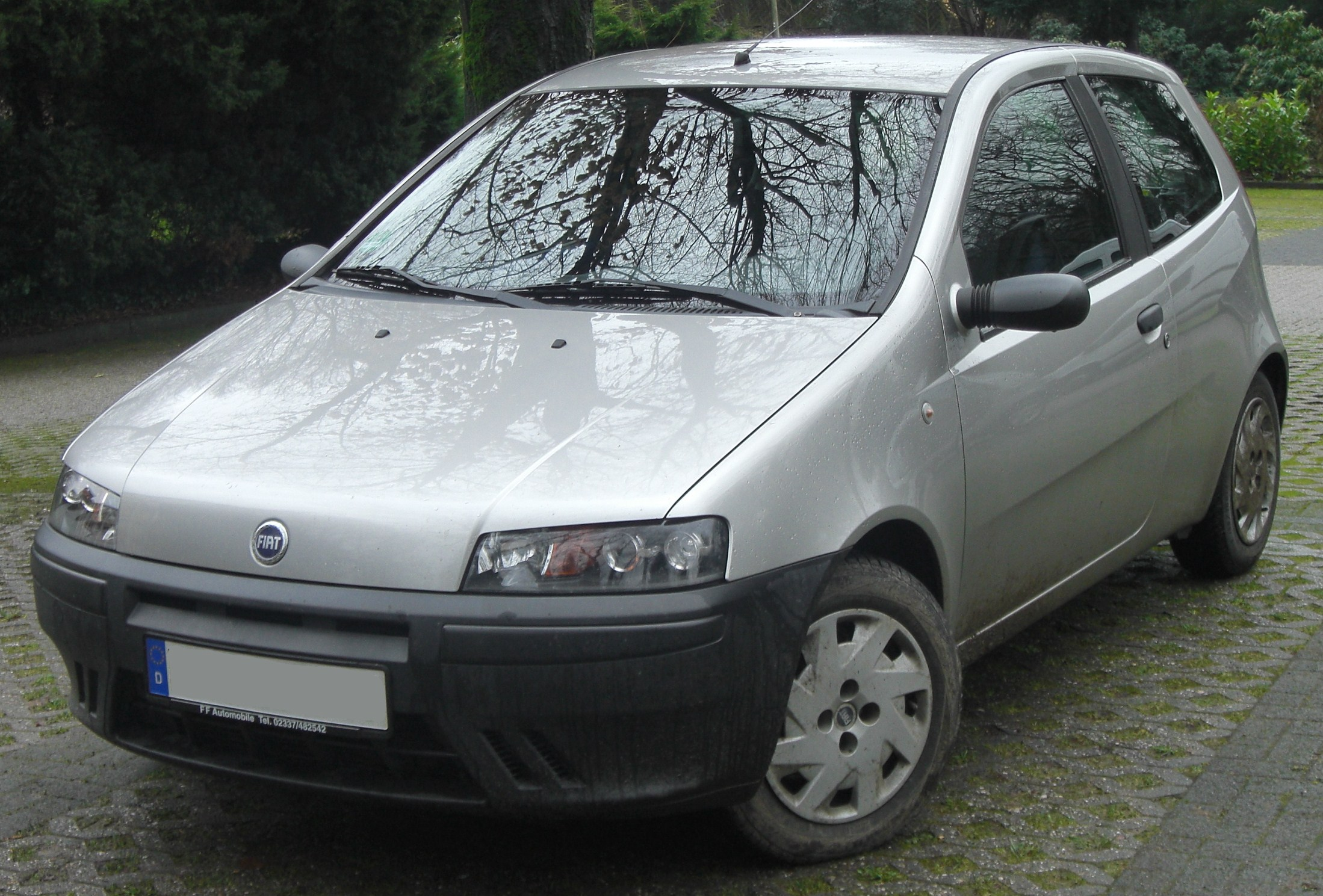 Description: Fiat Punto II Source: Matthias Other Version(s)